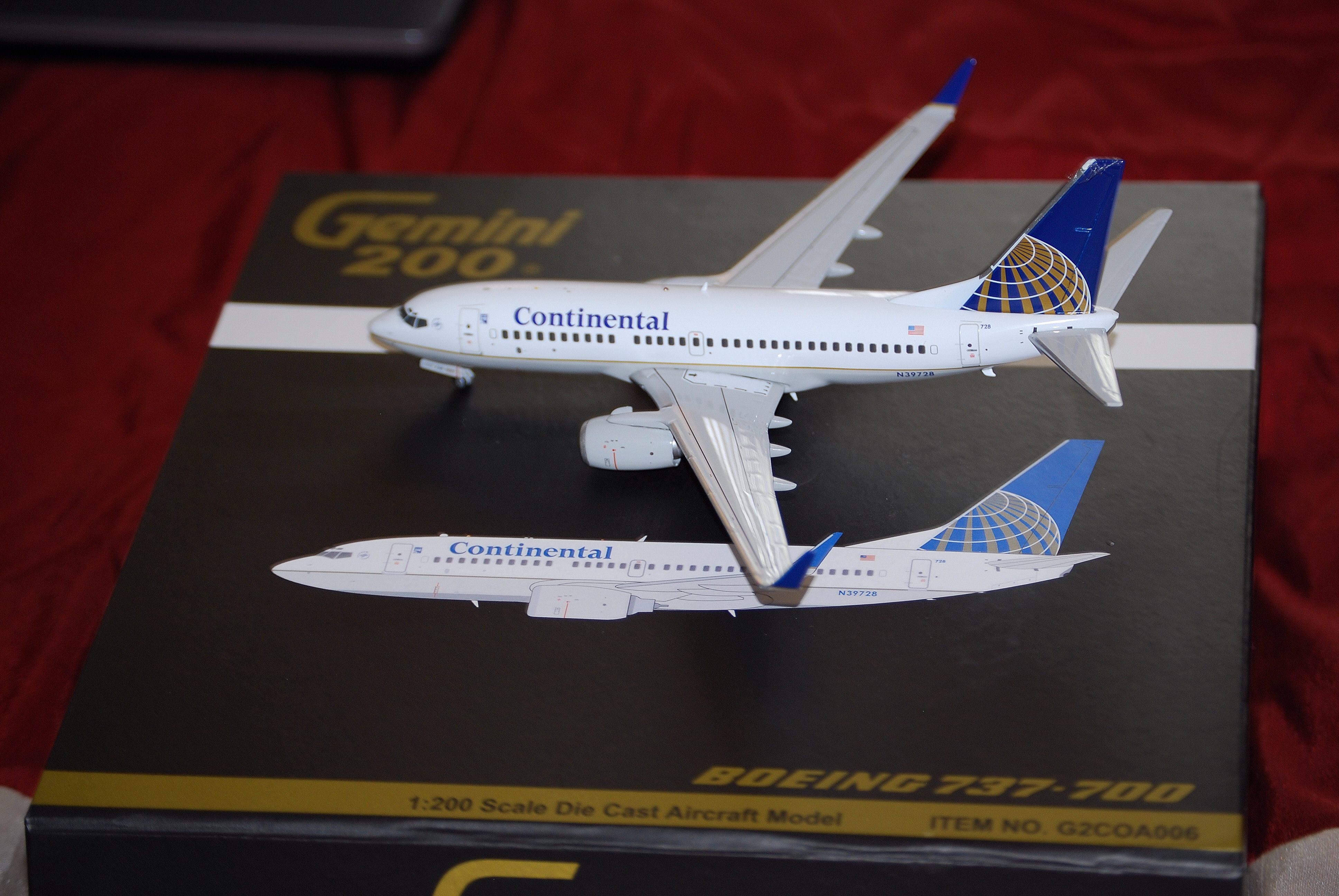 This was a gift given to me by its creator Bryan. This was his last model desgined before leaving the company. Thanks Cubbie!